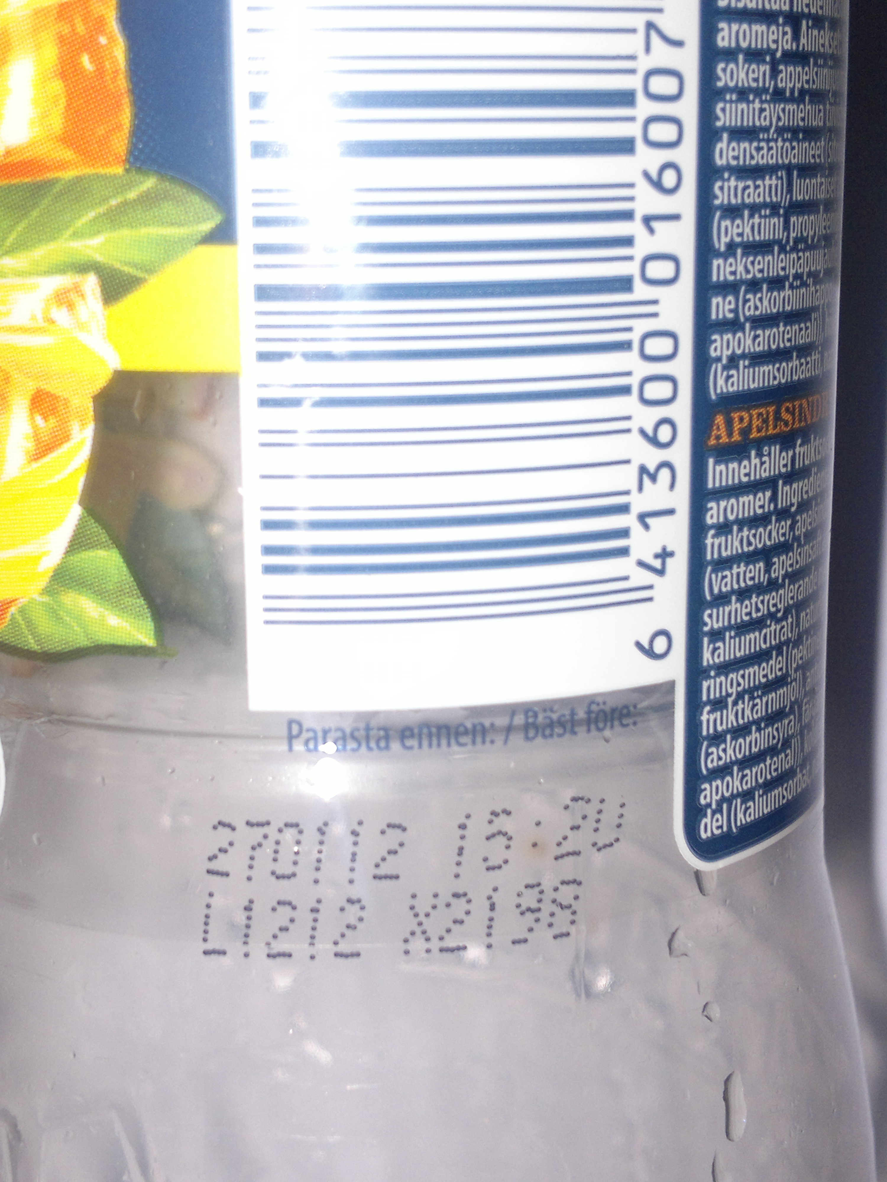 Inkjet marking, beverage label, barcode